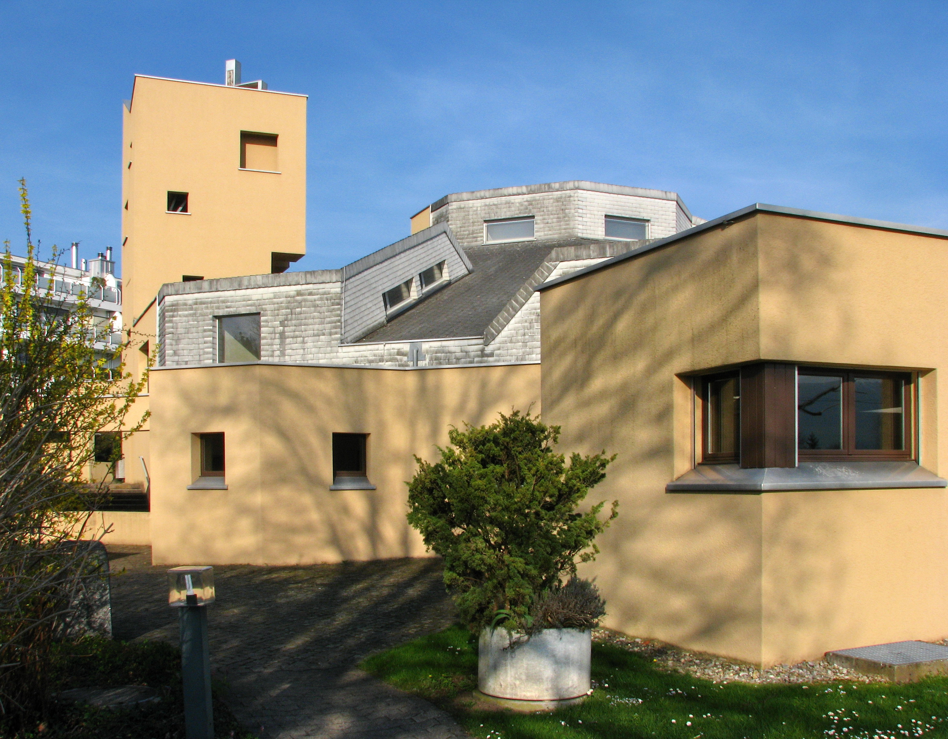 Kempraten church and comunity house St. Francis.